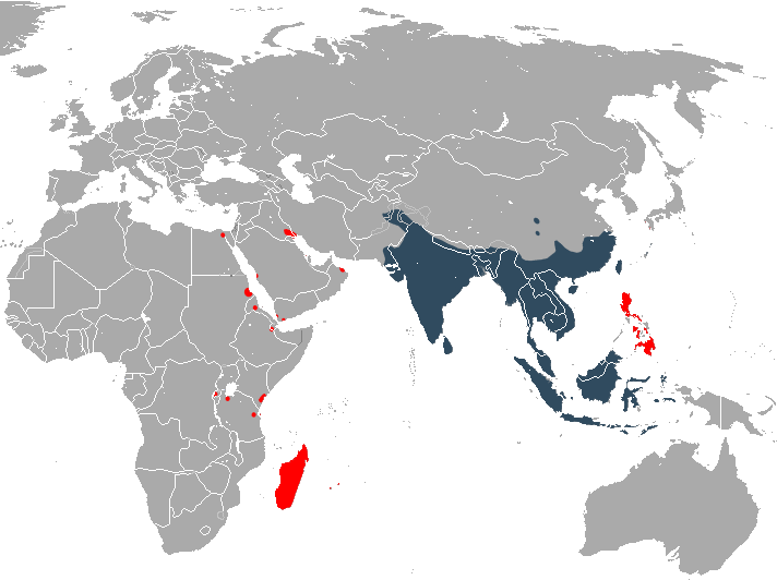 Asian House Shrew (Suncus murinus) range (blue — native, red — introduced)